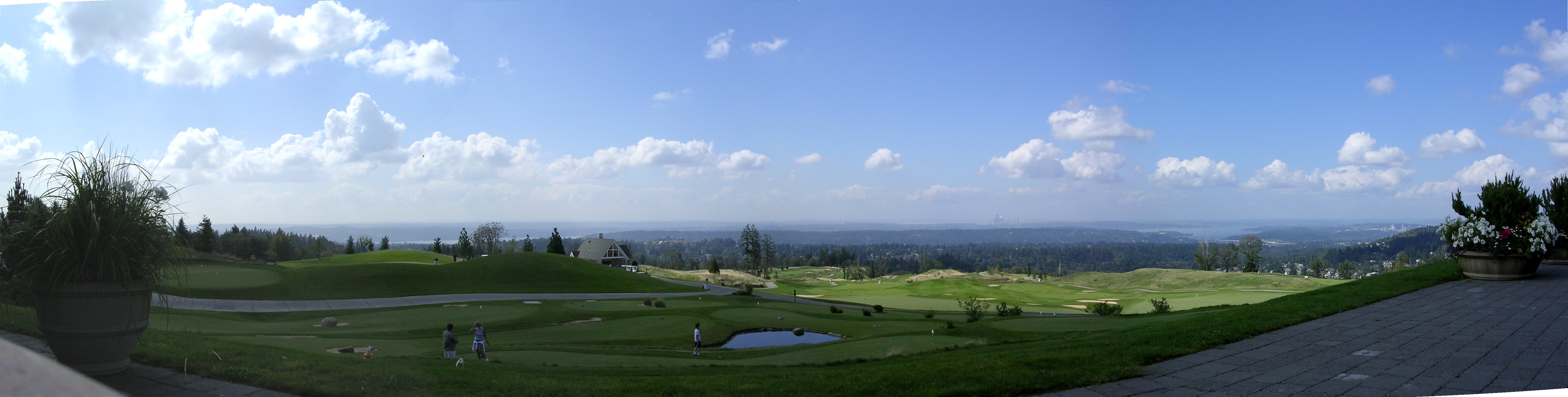 View of Seattle, Mercer Island and Bellevue from Newcastle's golf club. These are multiple pictures stitched together.